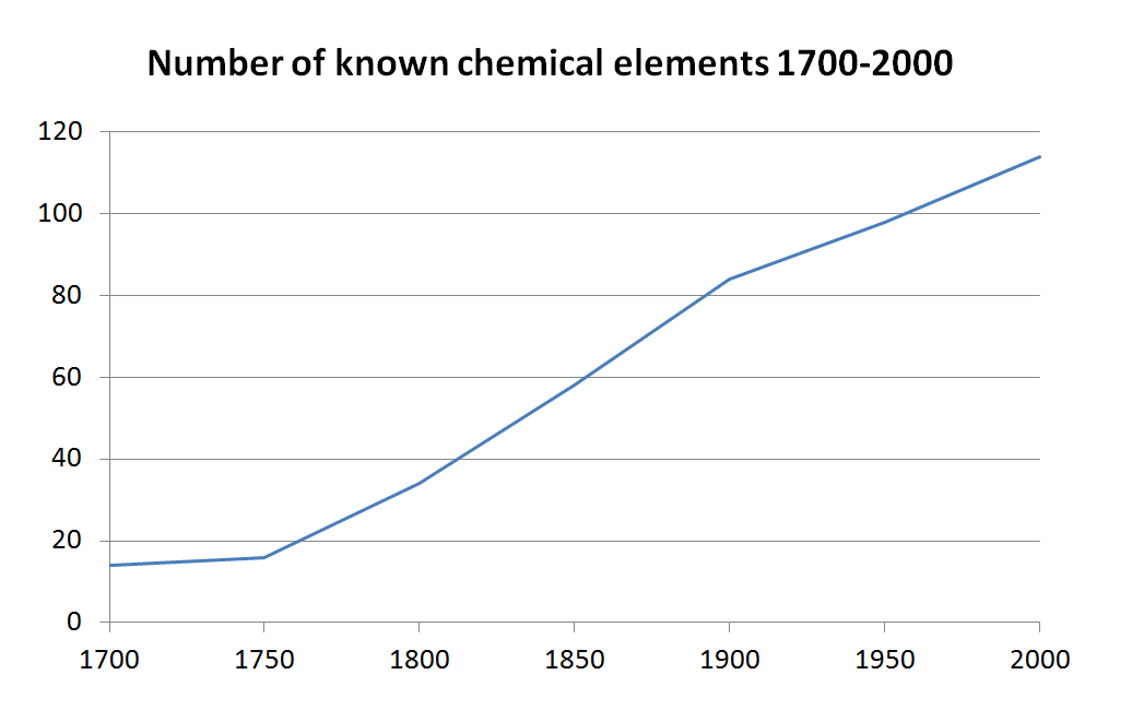 Graph of number of known chemical elements from 1700 untill 2000